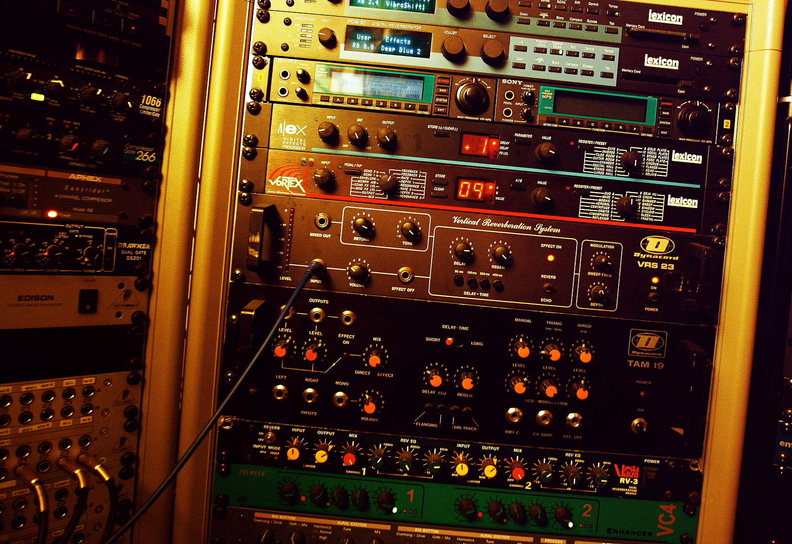 drøn outboard left SONY DTC-???? Digital Audio Tape Deck dbx 1066 Compressor/Limiter/Gate dbx 266 Cmpressor Gate Aphex Model 106 Easyrider 4-channel Compressor Drawmer DS201 Dual Gate Behringer EX1 Edison (Stereo 3D Processor with Phase Correlation Meter) blank Behringer PX?000 UltraPatch Pro (patchbay ×3) right Lexicon PCM 80 Digital Effects Processor Lexicon PCM 90 Digital Reverberator Sony HR-MP5 Multi Processor Lexicon Alex Digital Effects Processor Lexicon Vortex Audio Morphing Effects Processor Dynacord VRS 23 Vertical Reverberation System Dynacord TAM 19 Time Axis Manipulator (stereo multi-flanger system) Vesta Kozo RV-3 Dual Reverberation Device Joe Meek VC-4 Enhancer